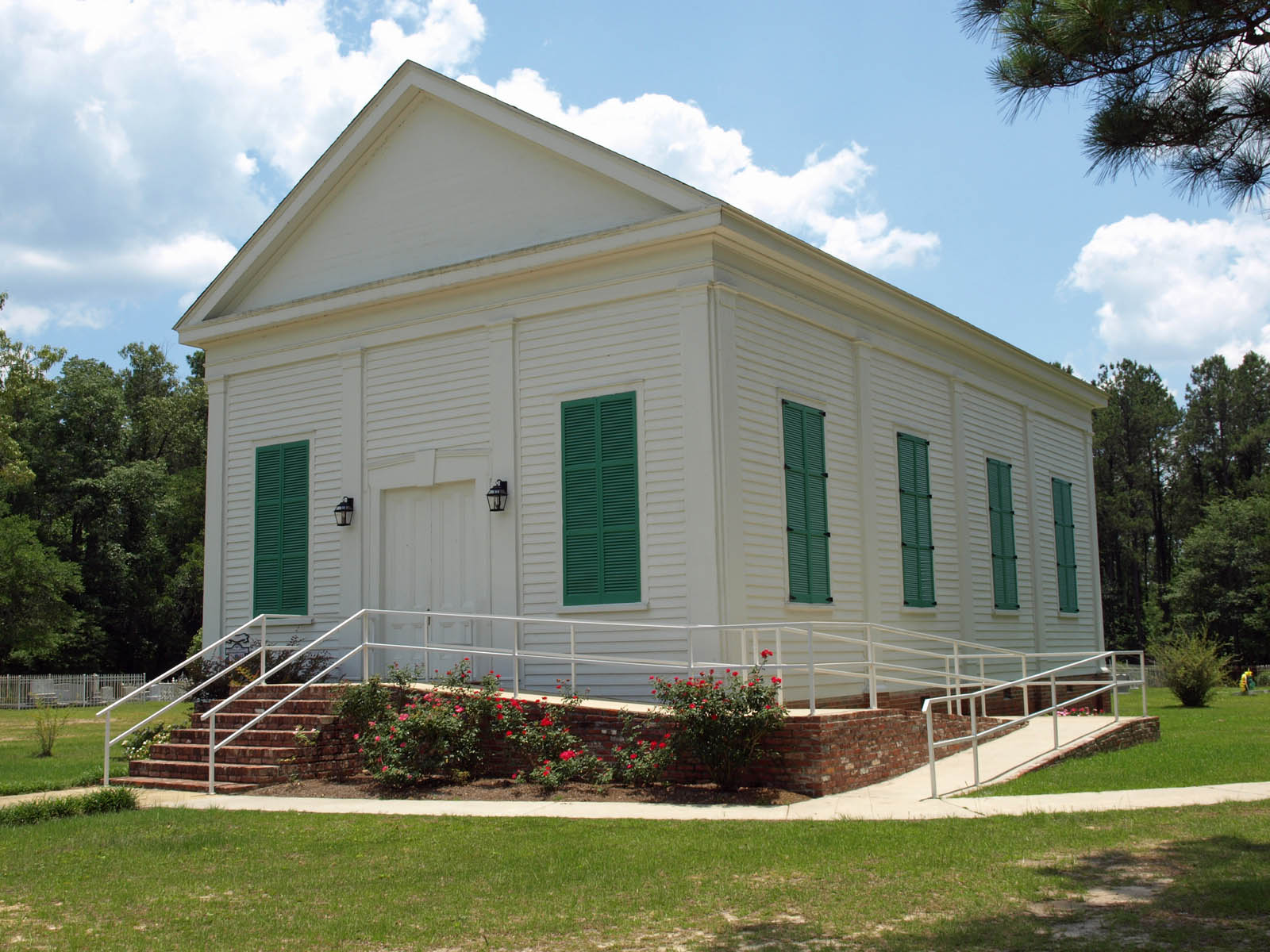 Montgomery Hill Baptist Church in Tensaw, Alabama, listed on the National Register of Historic Places